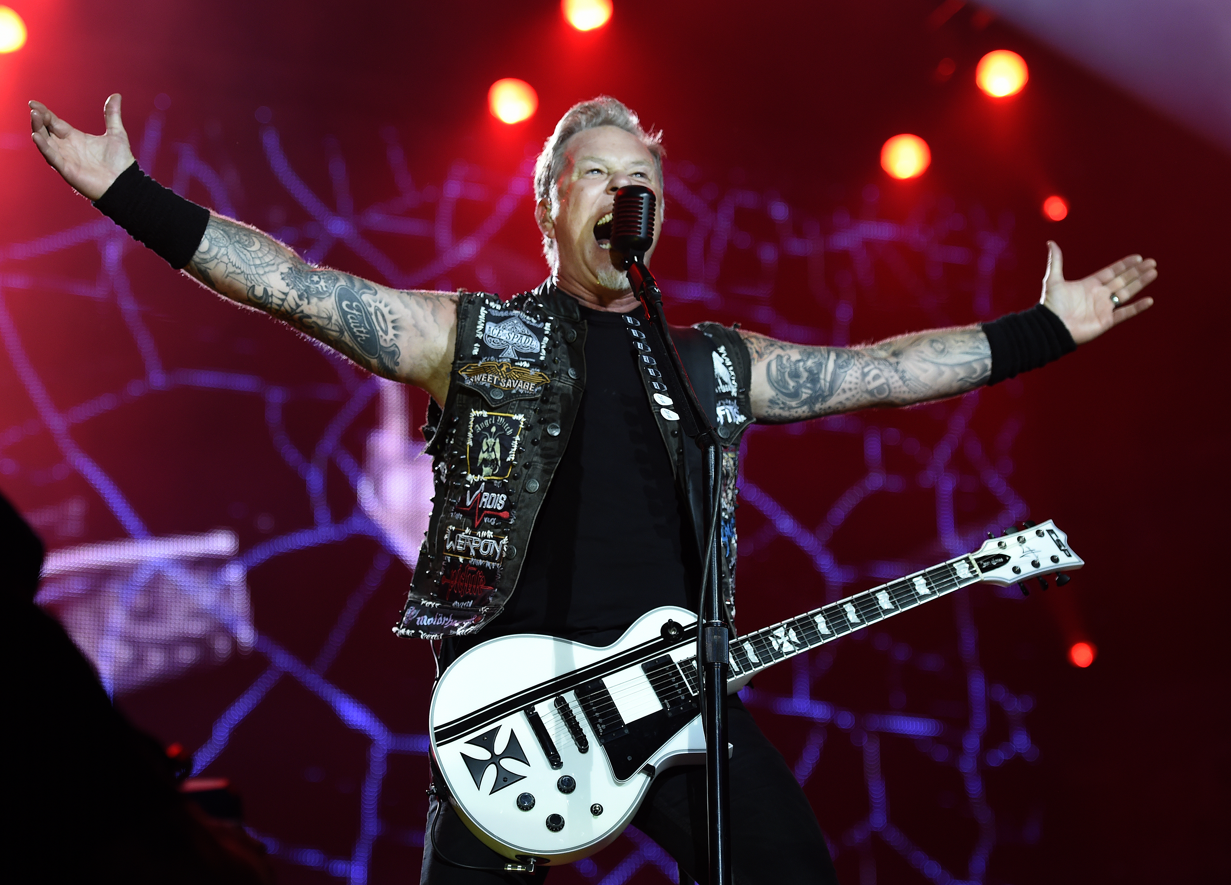 James Hetfield, live with Metallica at Ullevi Stadium, Gothenburg, Sweden.